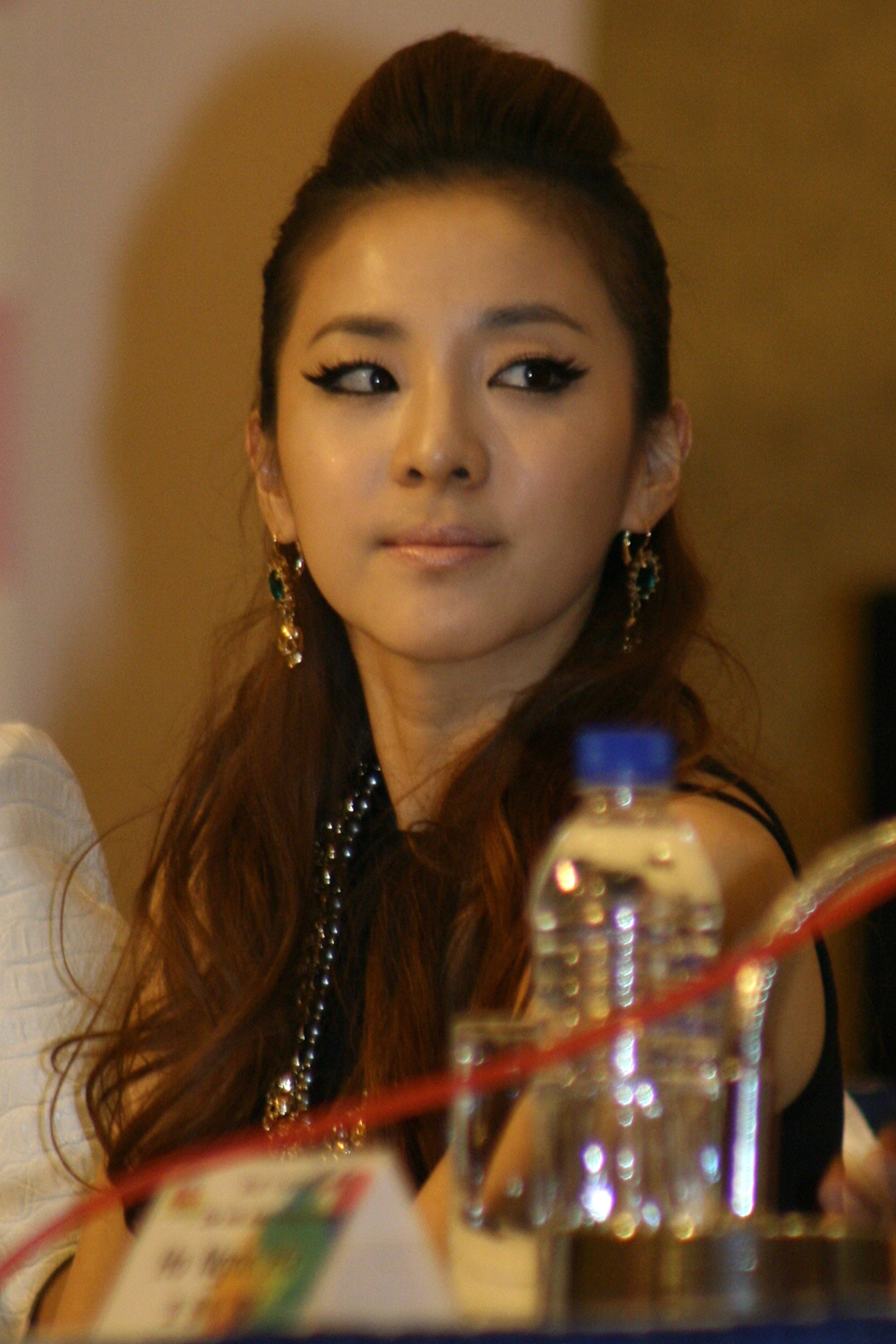 Sandara Park in the The 6th Asia Song Fastival 2009.